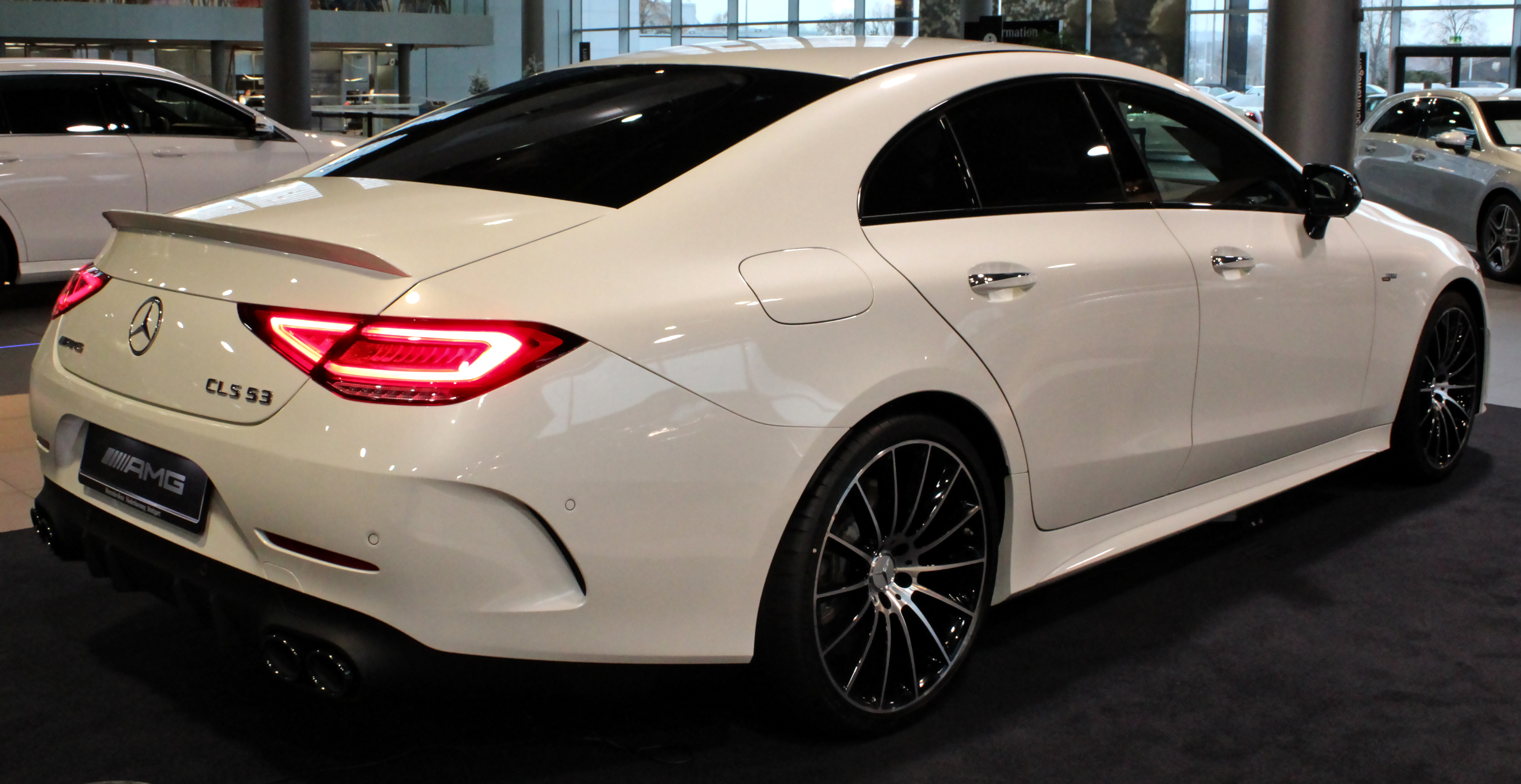 Mercedes-AMG CLS 53